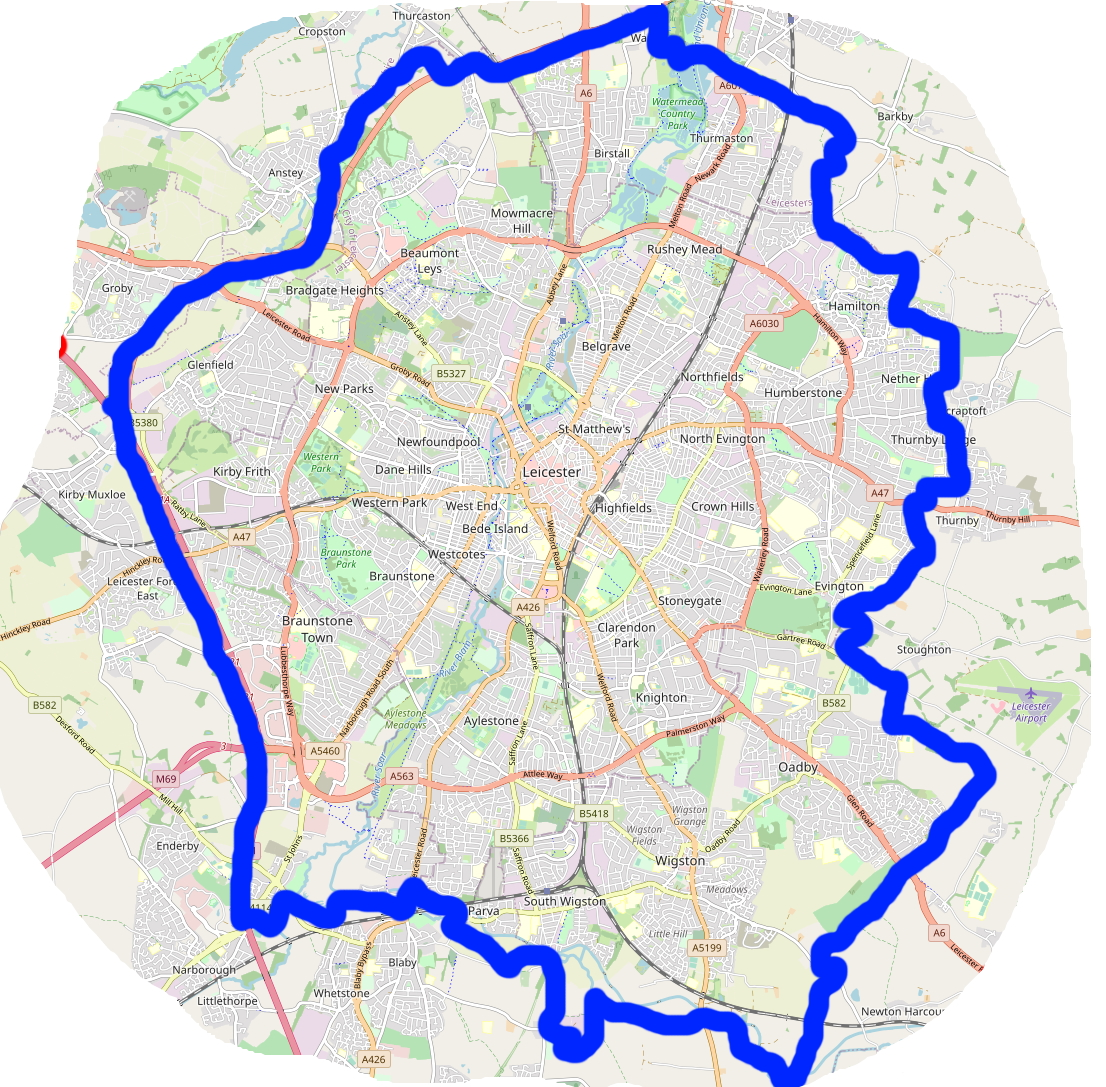 Leicester was made subject to the UK's first 'local lockdown' on 30th June 2020. I made this map courtesy of OpenStreetMap, superimposing publicly available UK government data[1]. It shows the boundary of the local lockdown measures as at that date.